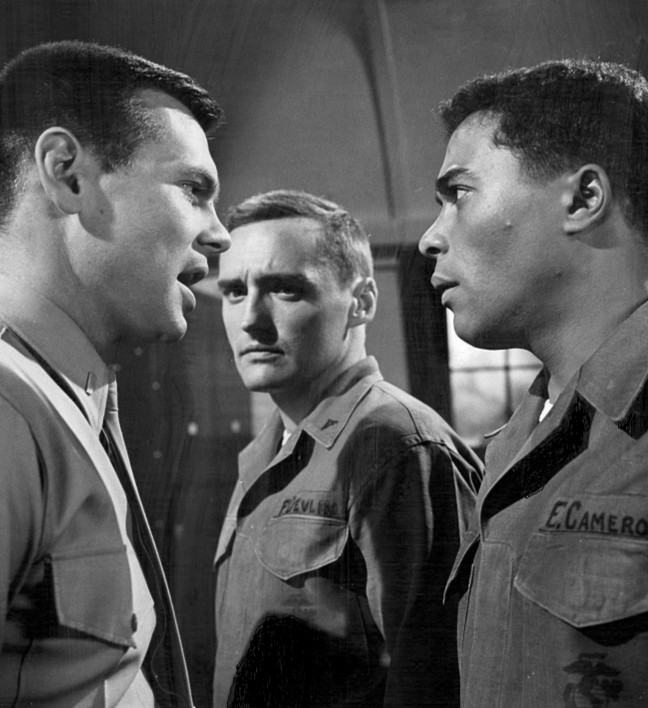 Scene from the television program The Lieutenant. Pictured from left are: Gary Lockwood, Dennis Hopper and Don Marshall. The episode is "To Set It Right". There are uncited reports that the episode wasn't aired due to NBC's unhappiness with it. It dealt with race relations and this was a controversial topic in 1964. The uncited information continues by saying that the network refused to pay the costs for production of the episode. The evidence is that the network did plan to air the episode as it sent out publicity photos and a release with the planned air date. It can be seen that the photo in this upload was printed twice-once in March of 1964 and again in July of 1970. No corporation would have sent out publicity material for something they didn't intend to use. The Paley Center for Media has a copy of the episode in their television collection and the remarks are "commercials deleted". This is an "air copy" of the episode as there would have been no commercials to delete otherwise. They're inserted either on a network or local level.